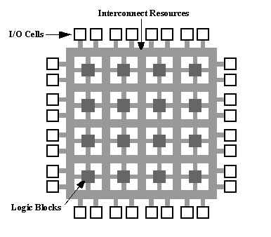 fpga architecture